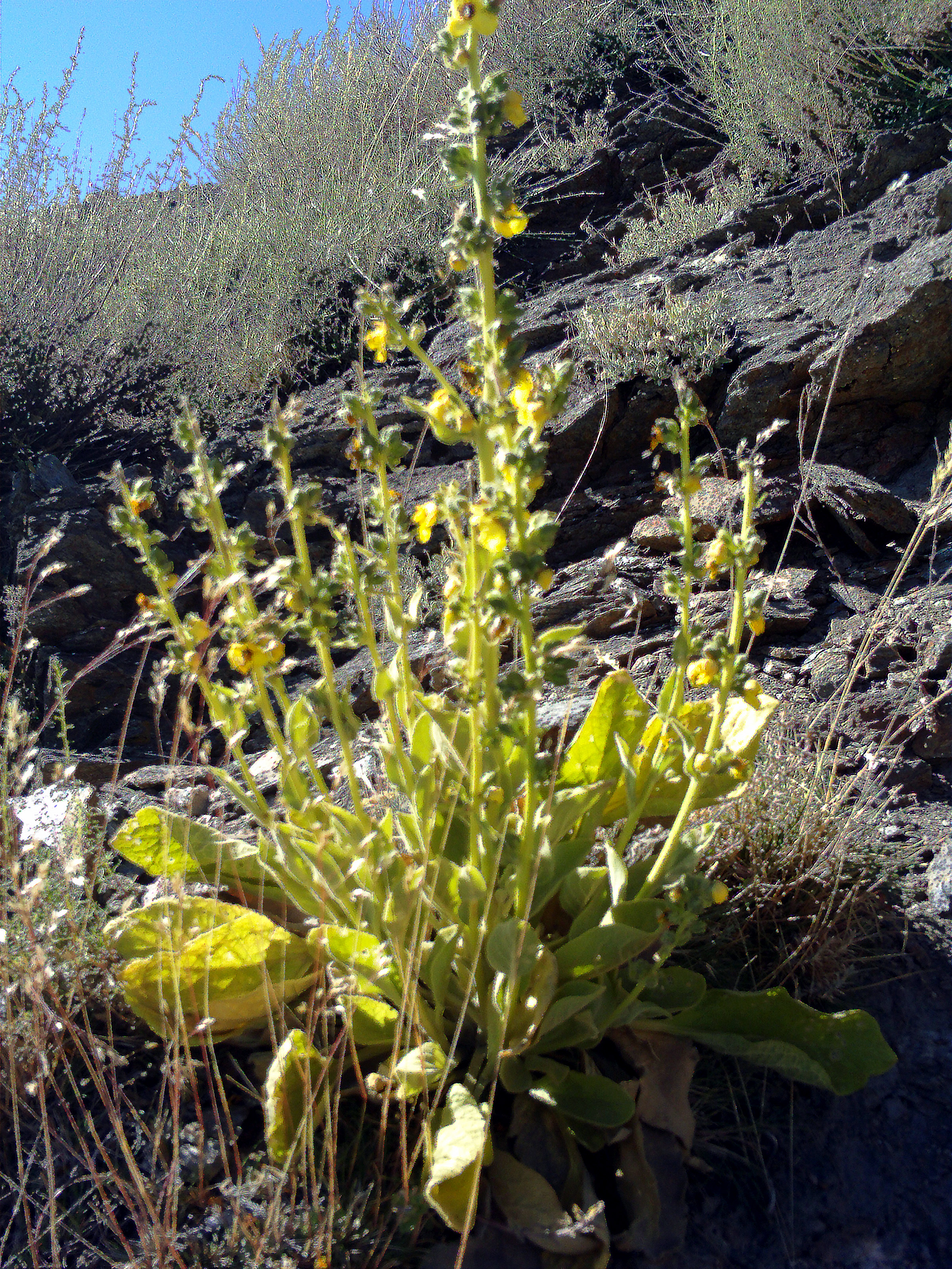 Verbascum_nevadense Habitus, Sierra Nevada, Spain